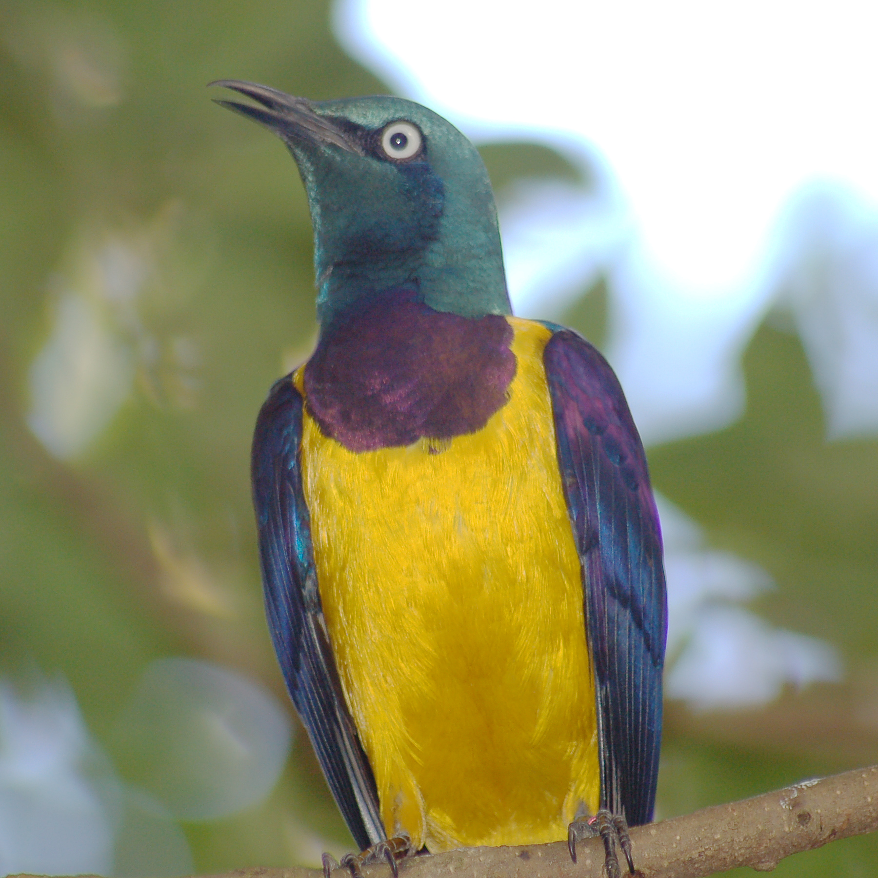 A photograph of an Golden-breasted Starlingen (Cosmopsarus regius en ). Photo taken at the National Aviary.